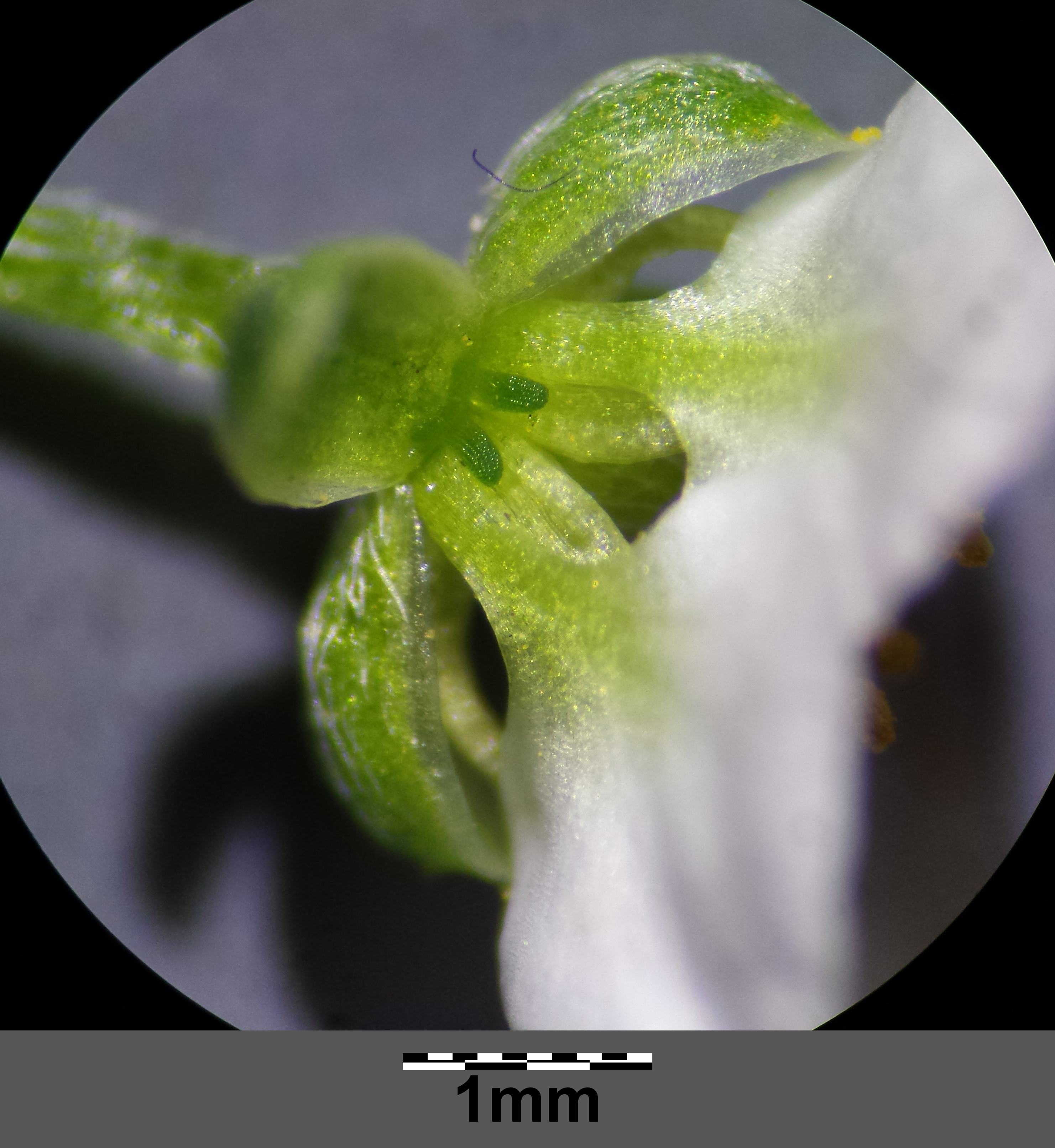 Flower with nectar glands Taxonym: Lobularia maritima ss Fischer et al. EfÖLS 2008 ISBN 978-3-85474-187-9 Location: Marchfeldkanal near Gerasdorf, district Wien-Umgebung, Lower Austria - ca. 160 m a.s.l. (here feral) Habitat: ruderal meadows